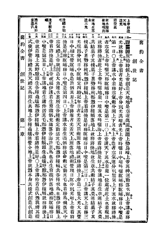 Foochow Bible in Chinese Characters.